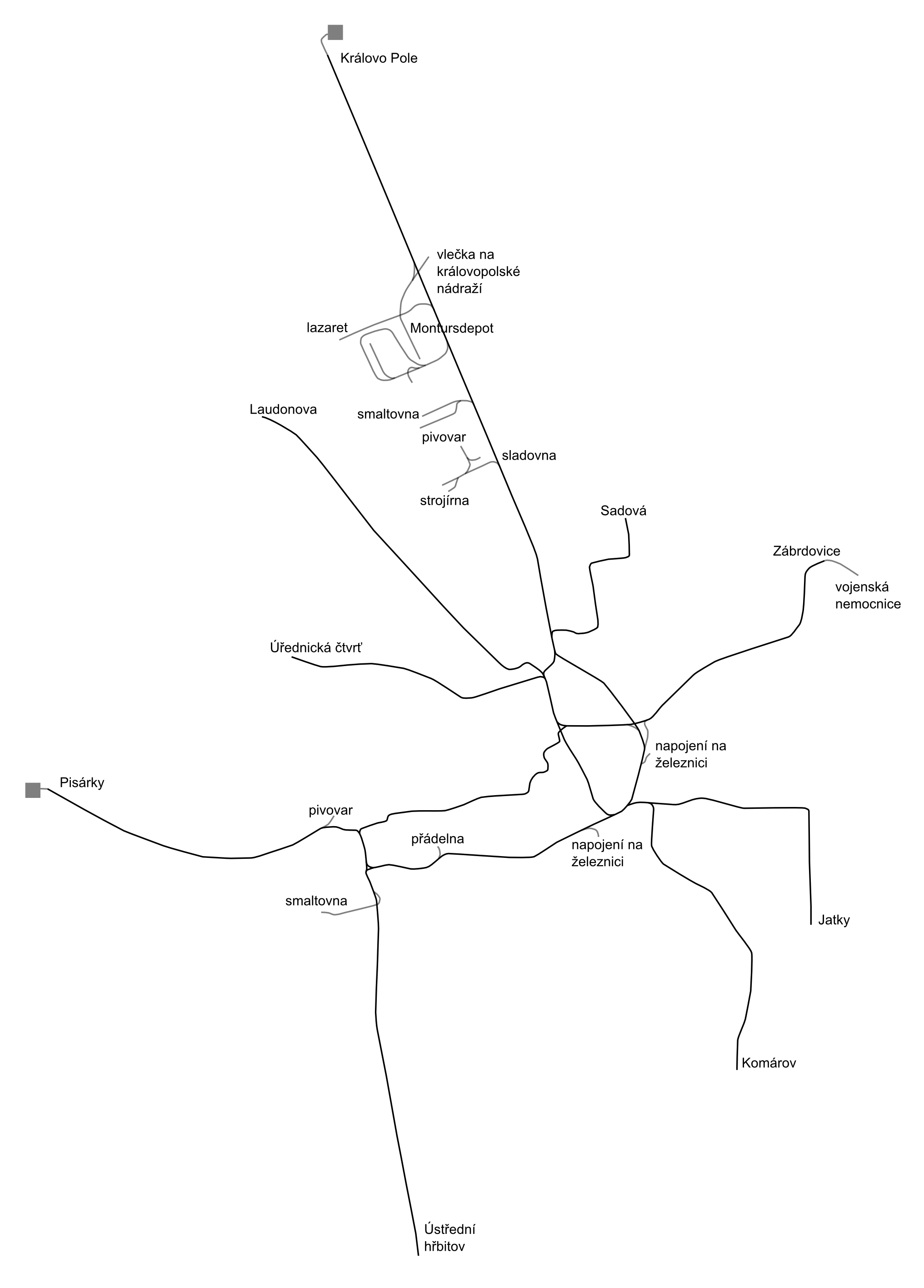 Tram network in Brno (situation in 1917), now Czech Republic